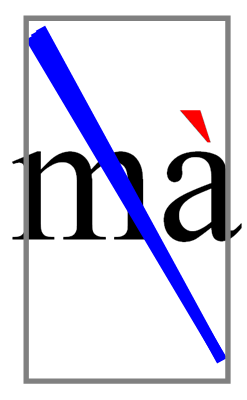 fourth tone of Mandarin Chinese